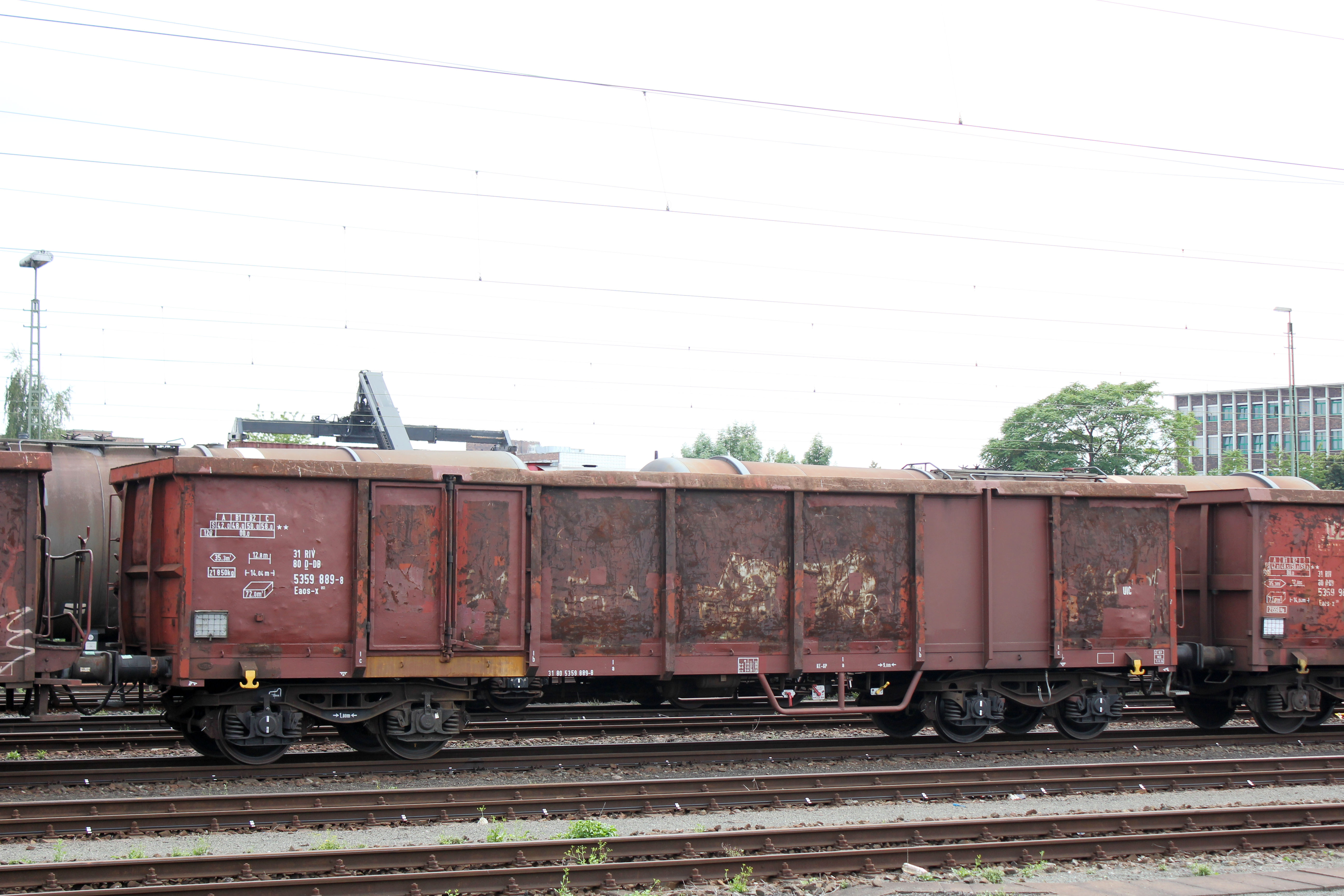 Deutsche Bahn AG: 4-axle open waggon class Eaos-x 051 (Schweinfurt station)